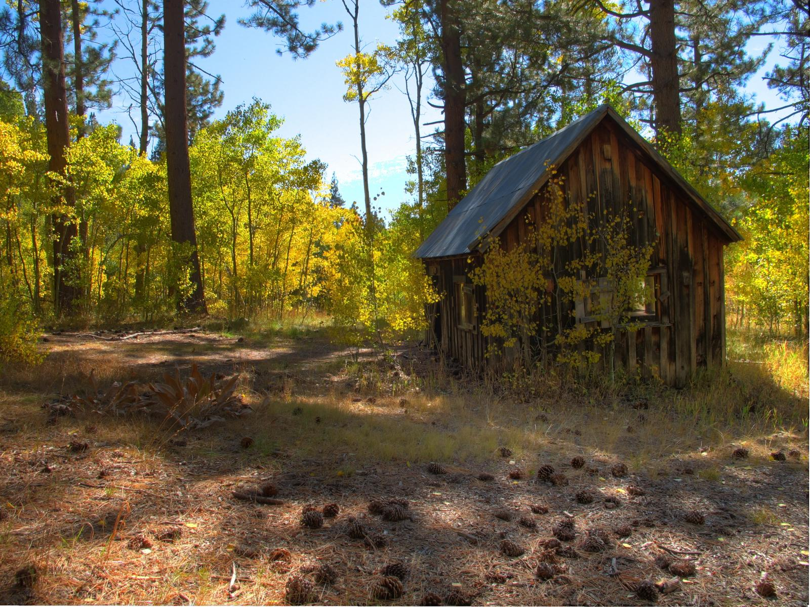 Old cabin, Marlette Lake Trail. I have to get a shot or two of the cabin every time.